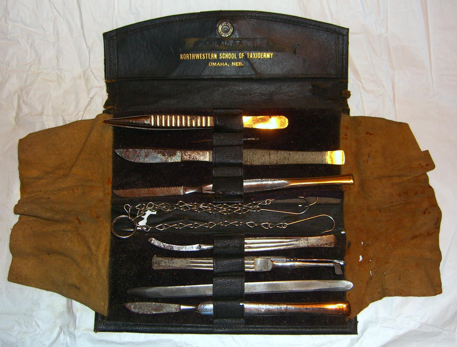 Taxidermy tool kit formerly owned by U.S. President Theodore Roosevelt, as seen on May 5, 2012. Today the kit is owned by Union City taxidermist John Janelli, Vice Presdient of the National Taxidermists Association. Source This photo was created by Luigi Novi. It is not in the public domain, and use of this file outside of the licensing terms is a copyright violation.